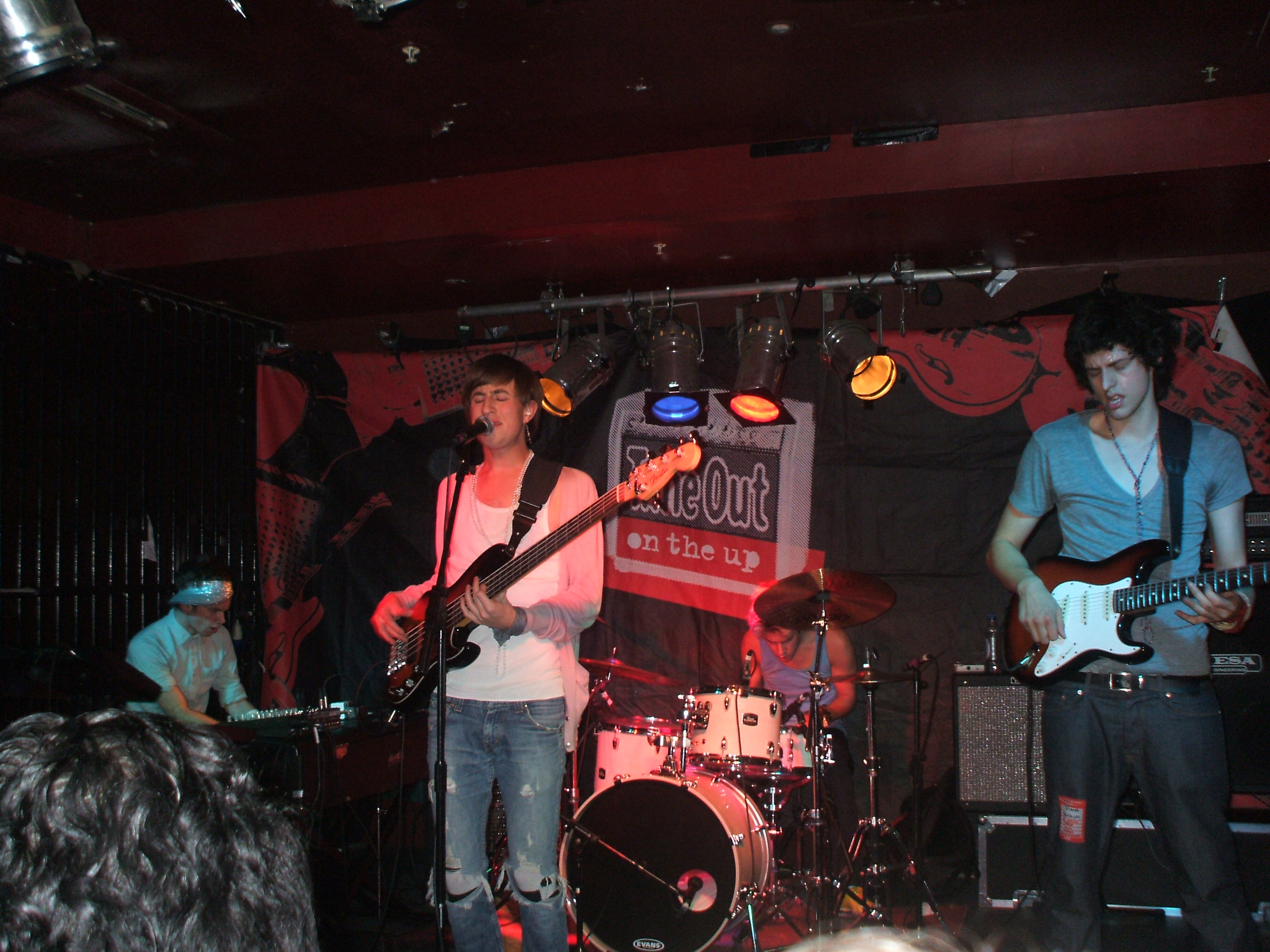 Palladium (band) in London in October 2007.